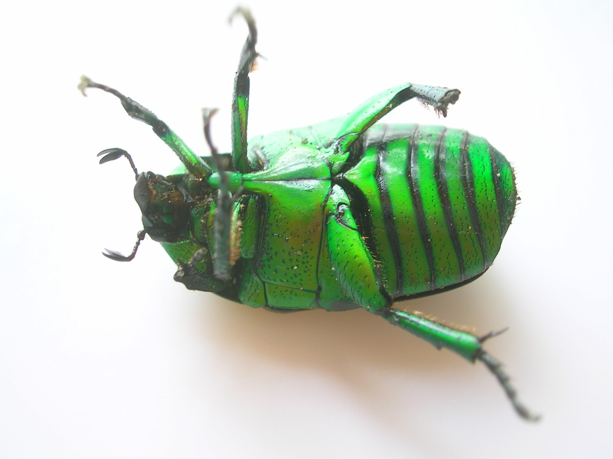 Heterorrhina elegans Cetoniinae, Scarabaeidae from Bangalore, India. Determination courtesy of Shankara Murthy, Systematics Lab, Entomology Department, University of Agricultural Sciences, Bangalore